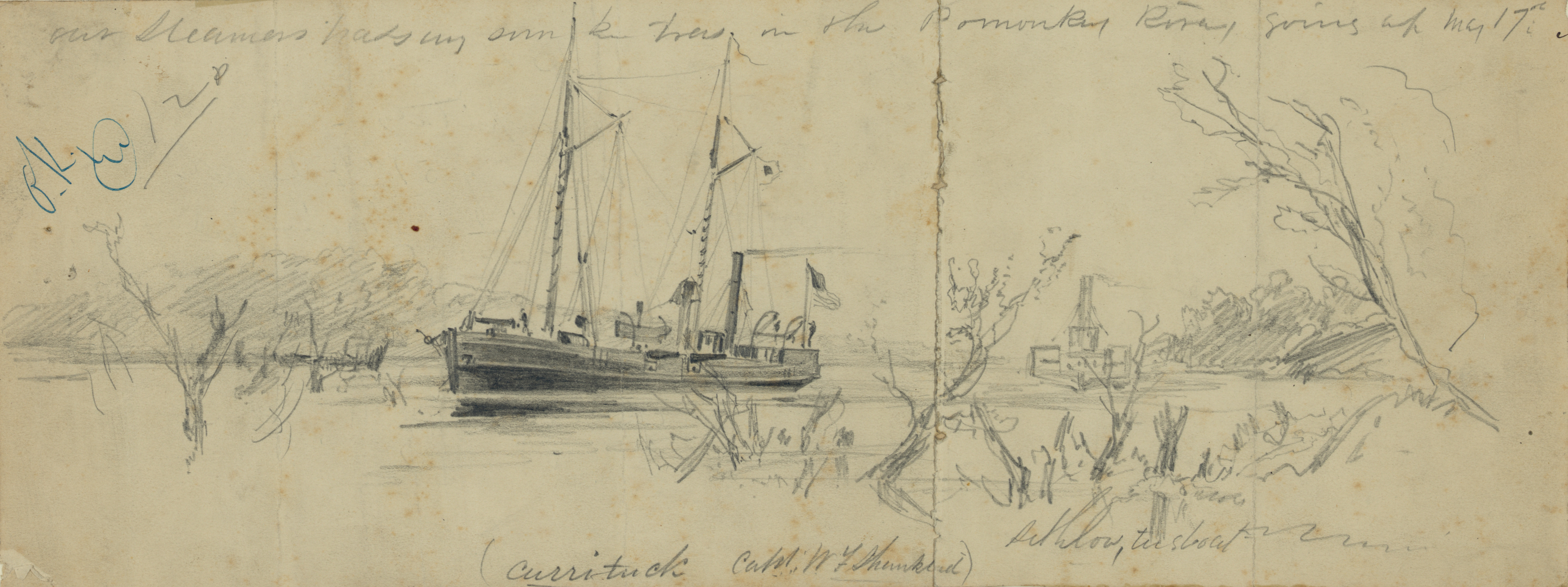 USS Currituck (foreground) and the tugboat Seth Low (background, right) steaming past sunken trees during their expedition up the Pamunkey River, Virginia, on 17 May 1862.